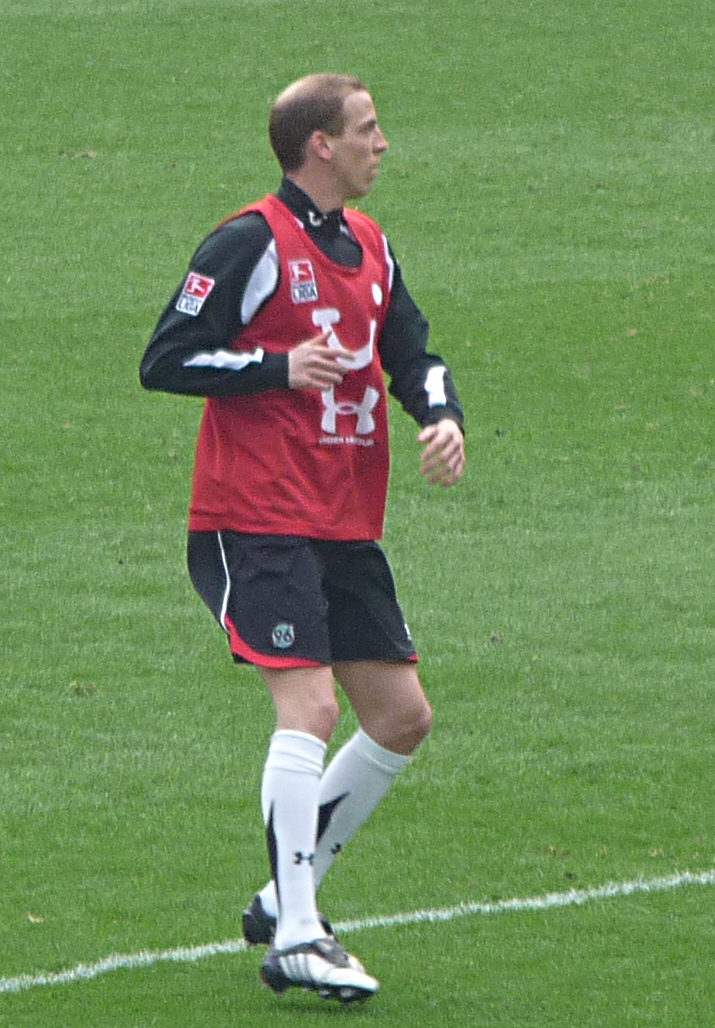 Jan Schlaudraff